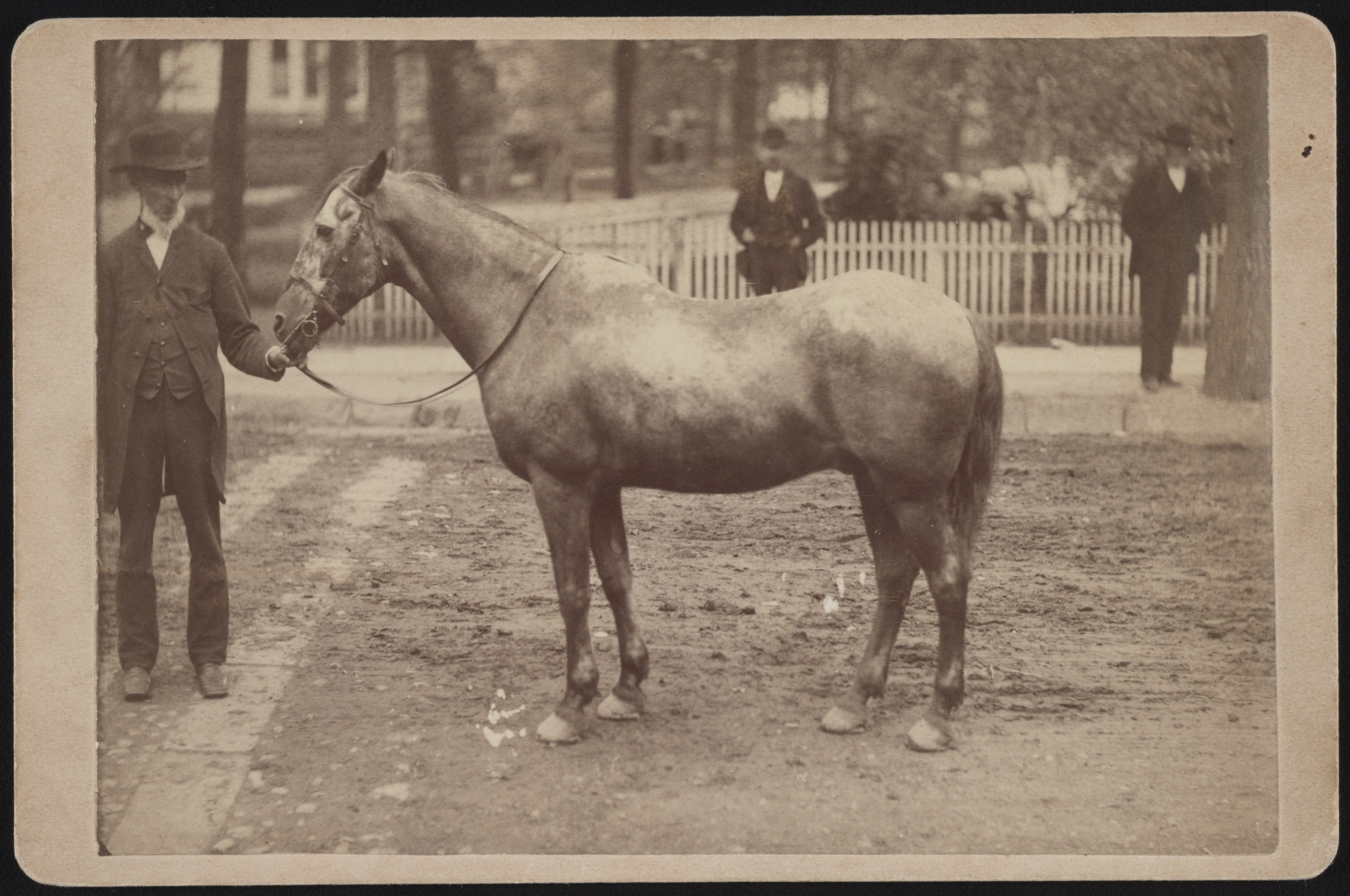 Title: Charlie, the horse who carried the dispatch from General Slocum to General Sherman announcing the surrender of Atlanta, Georgia Abstract/medium: 1 photograph : albumen print on card mount ; mount 11 x 17 cm (cabinet card format)